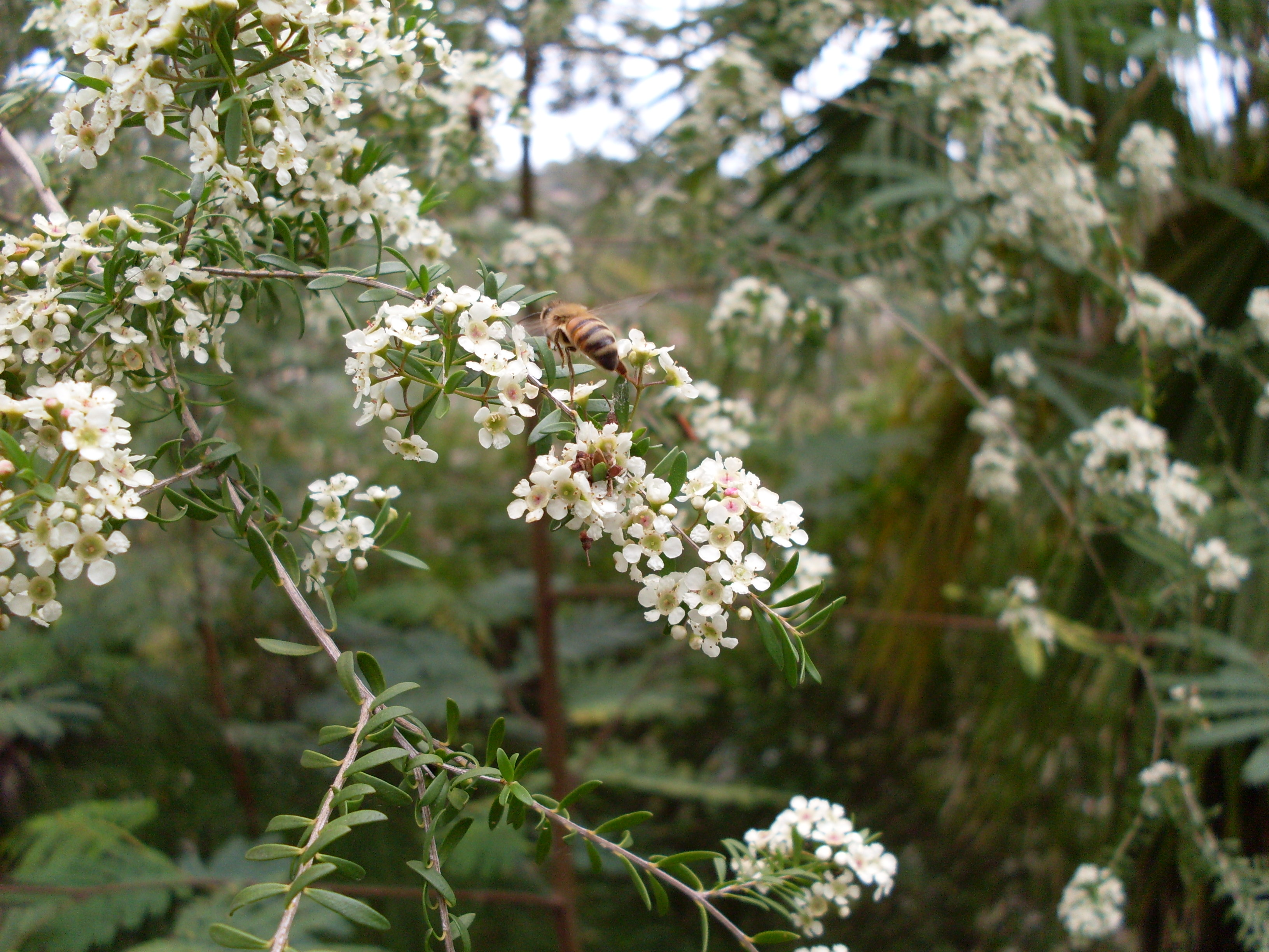 A European honey bee Apis mellifera checking out the shrub that has a passing resemblance to a Tea-tree, Tall Baeckea, Sannantha pluriflora aka Babingtonia pluriflora. Como NSW Australia, December 2008.